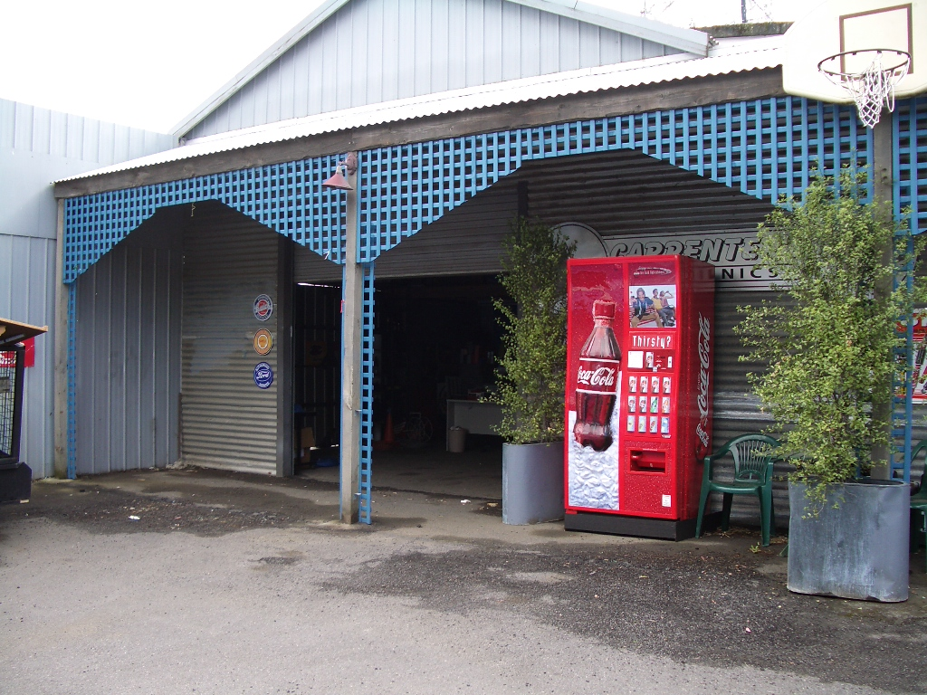 The front of the Carpenter's Mechanics set from the Australian soap opera Neighbours taken by Theresa T in 2006.